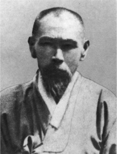 Kang Ton-uk, maternal grandfather of Kim Il-sung